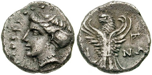 Head of nymph left; hair in sakkos / Eagle facing with wings spread. Ancient Greek Coin of Pontus, Paphlagonia, Sinope, Black Sea. Circa 4th Century BC. AR